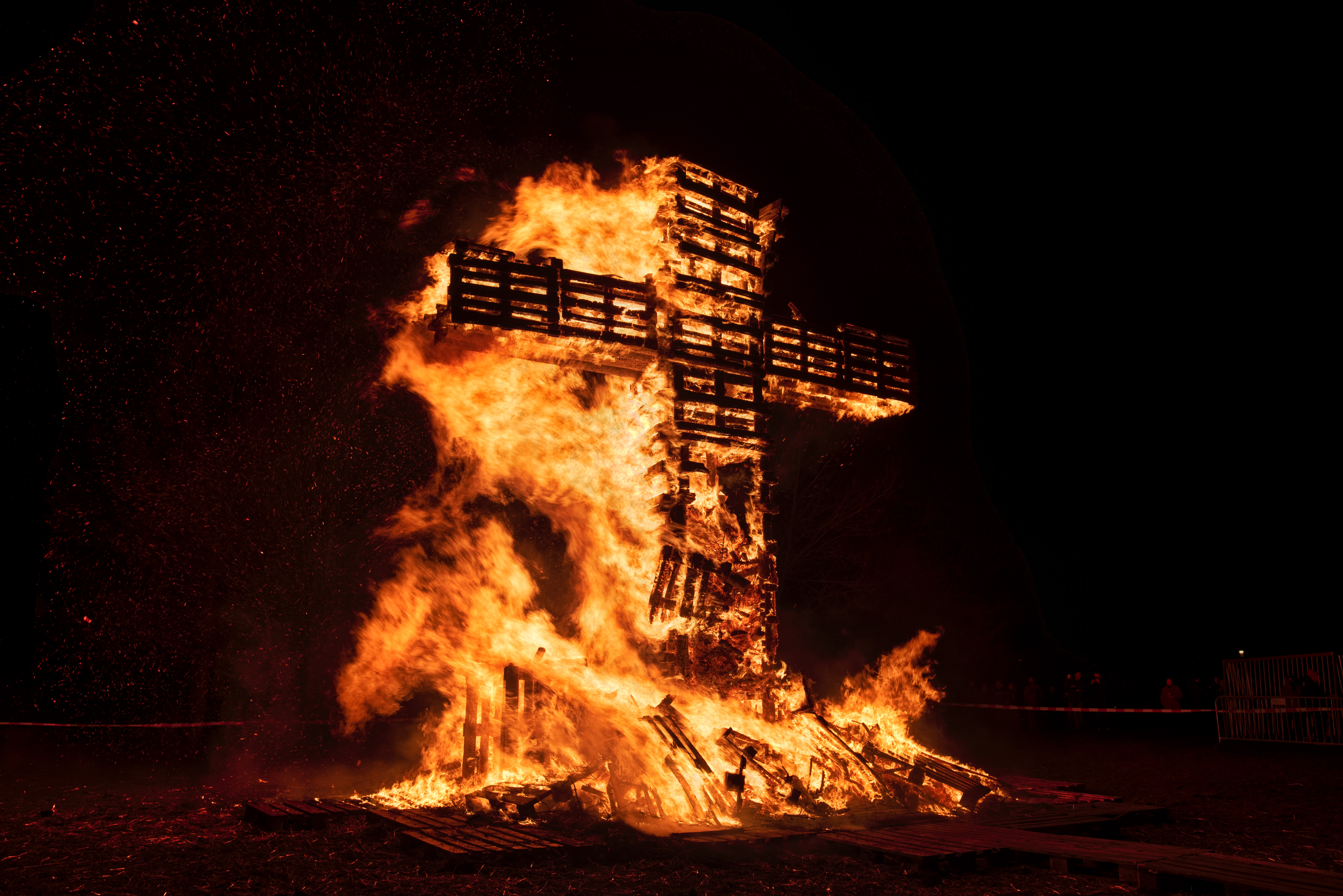 Buergbrennen 2019 (Bonnevoie)